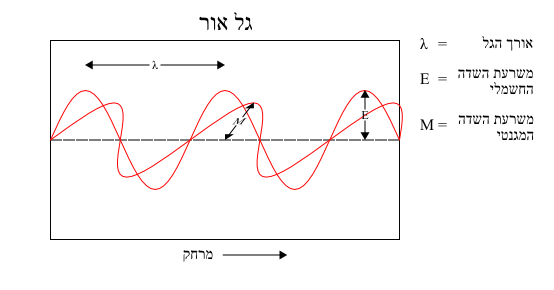 Hebrew got scrambled in the last version, so I'm uploading PNG.